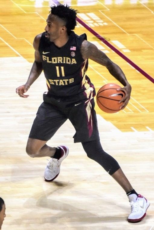 Brian Angola handles the ball for the Seminoles